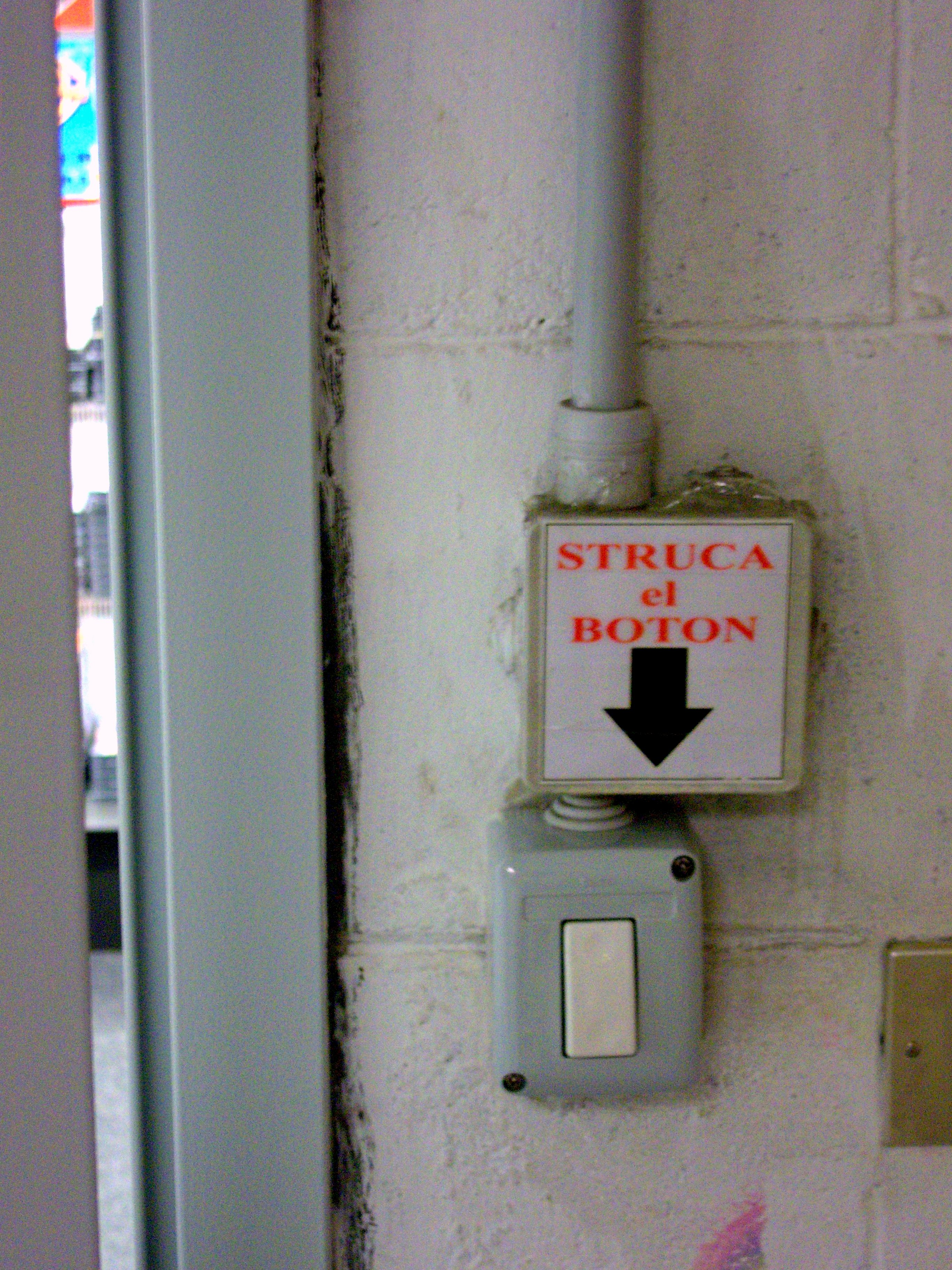 Sign written in Venetian language. The sign is in the employees area of a shopping mall in San Giovanni Lupatoto, it means "Push the button"